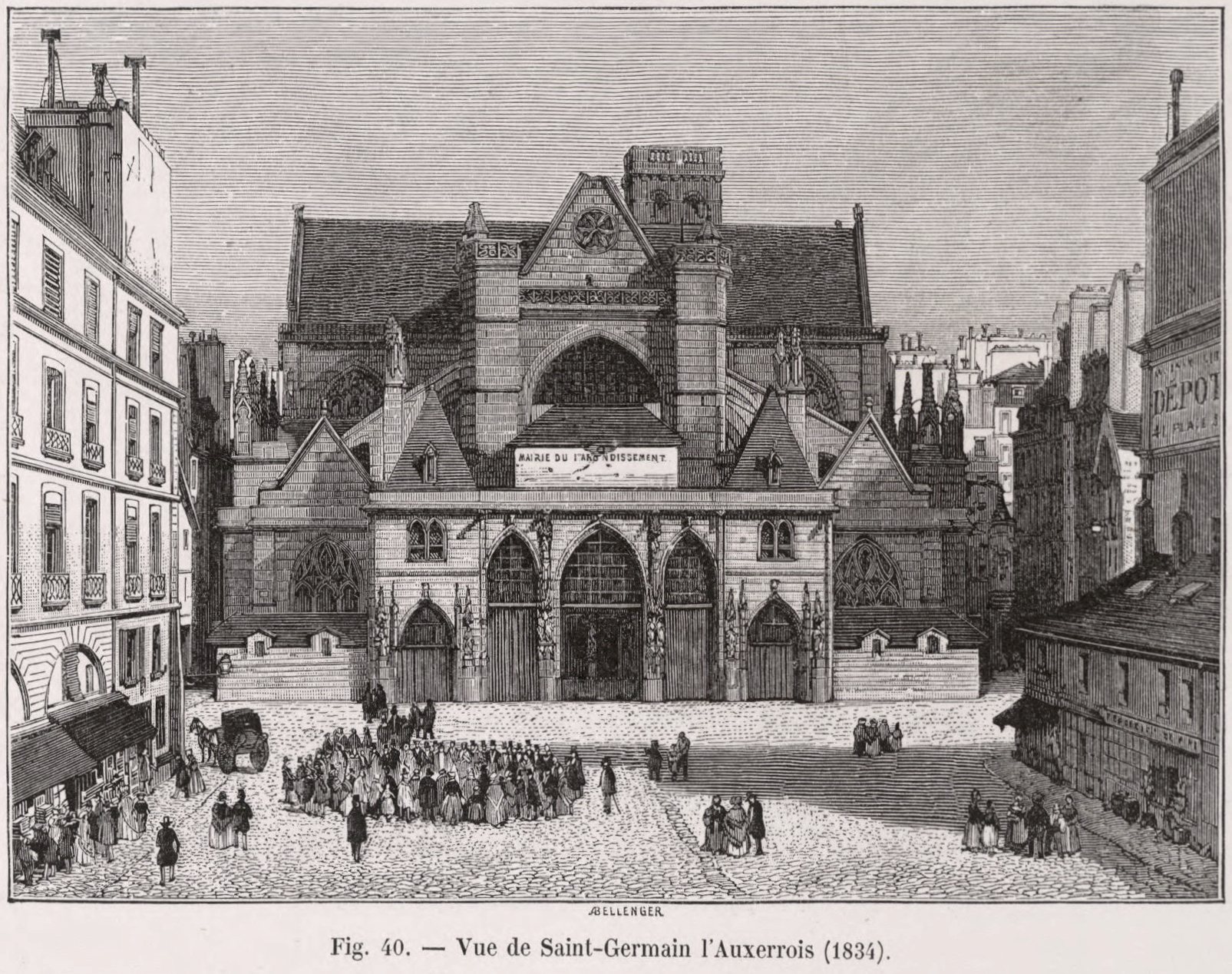 The view taken from the Saint-Germain l'Auxerrois in 1834. This church, located in the first arrondissement, was built in the twelfth century and is Gothic in architectural style.